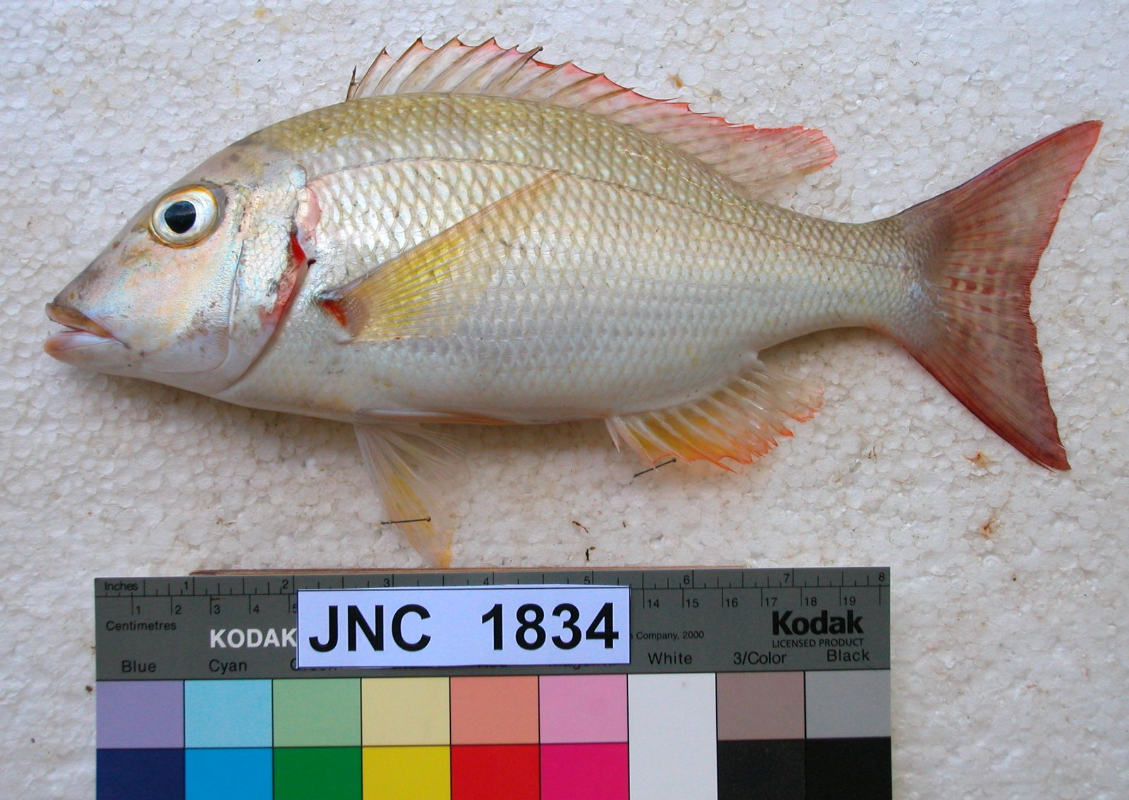 Lethrinus lentjan (Lacépède, 1802) 1830 from off New Caledonia. Parasitological number MNHN JNC1834. Collected off Anse Vata, Nouméa, New Caledonia, 17 May 2006. Fork Length 253 mm, Weight 313 g.